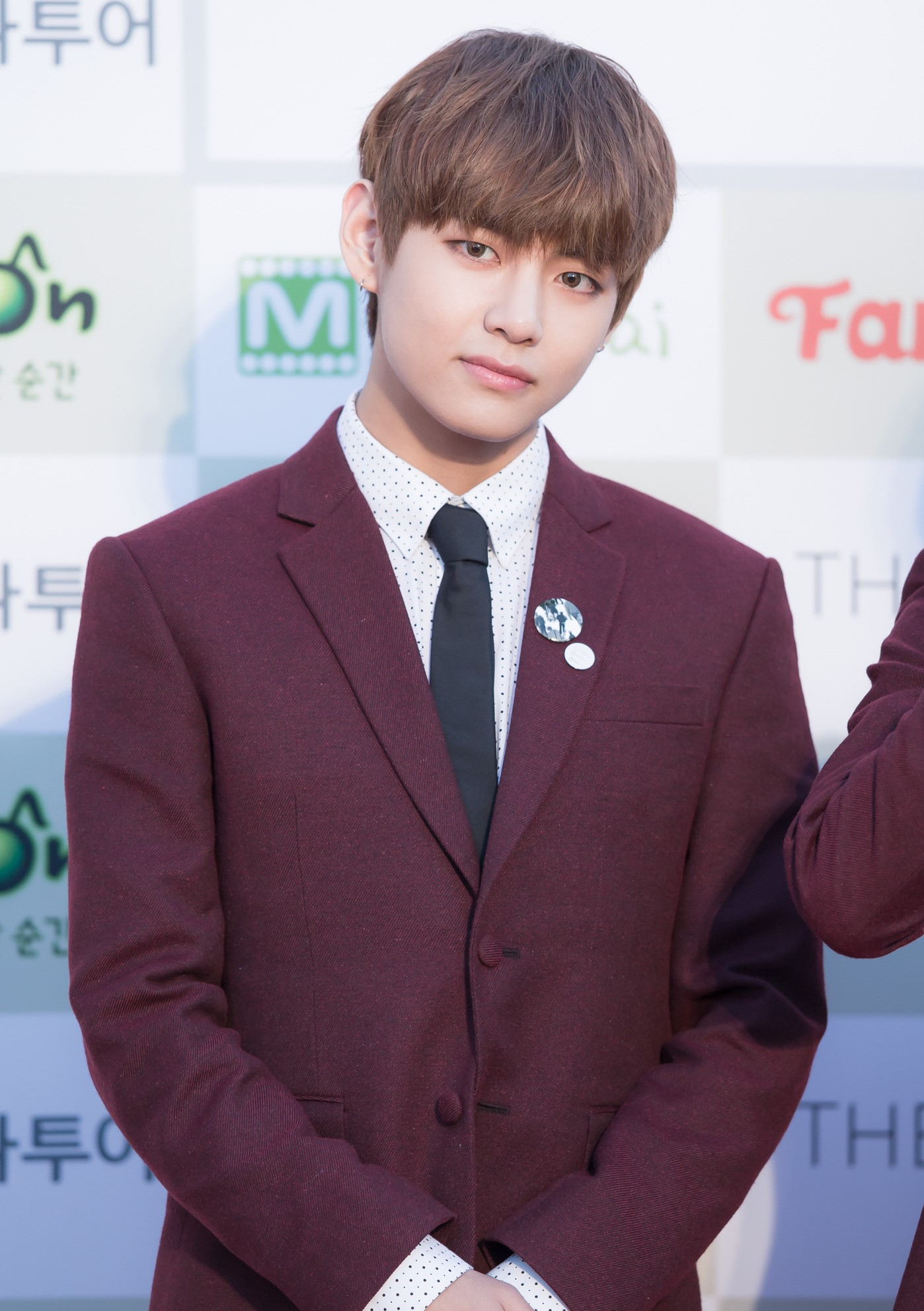 V (Kim Taehyung) at the 2016 Gaon Chart K-Pop Awards Red Carpet